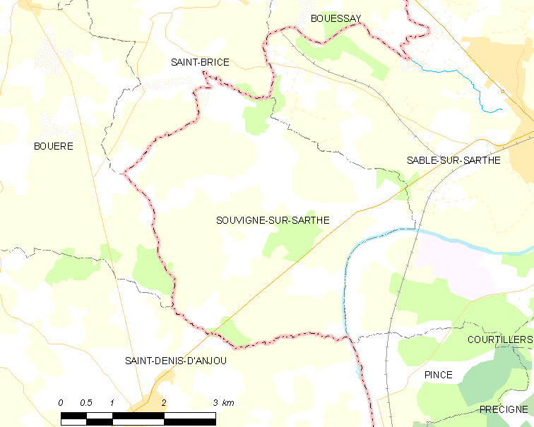 Map of French municipality